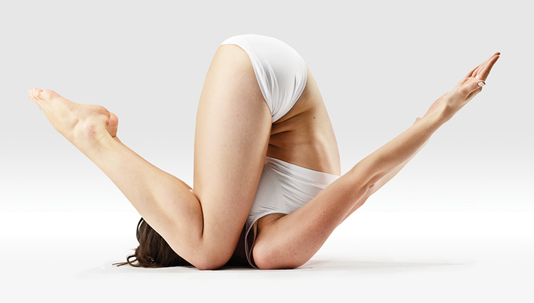 Ear Pressure Pose